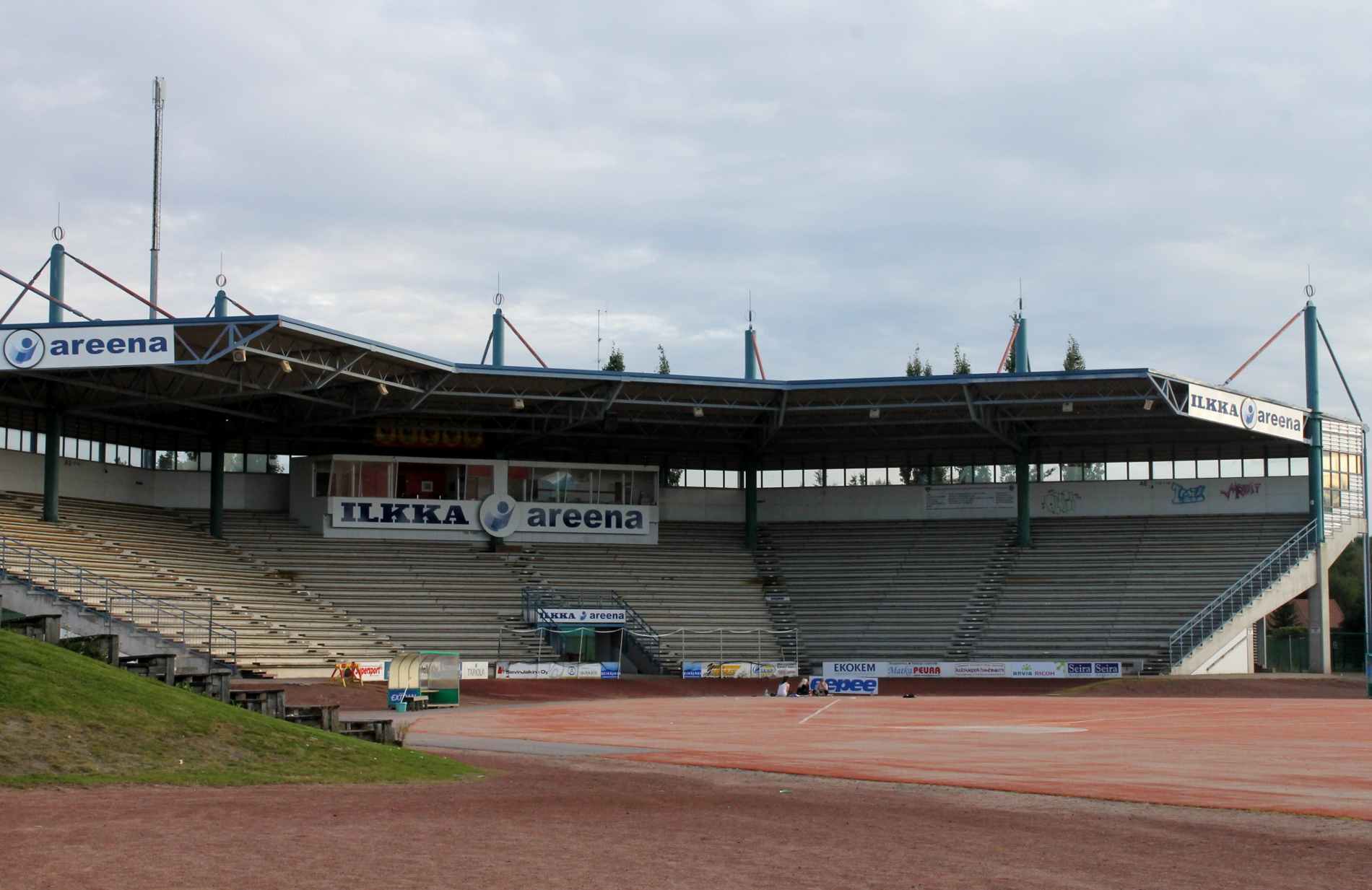 Finnish baseball-stadium, Ilkka-areena, in city of Seinäjoki at summer 2012